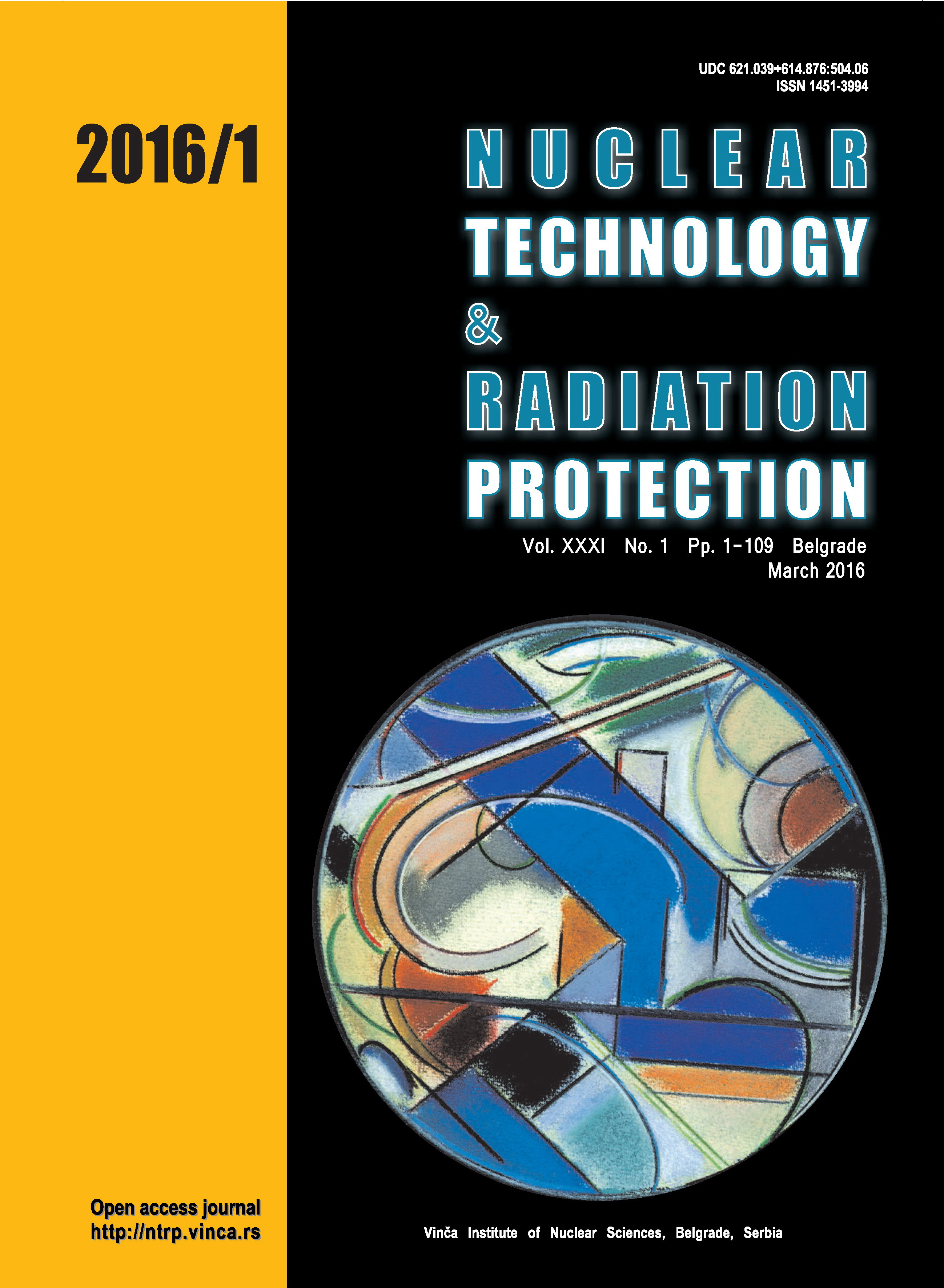 Cover of scientific journal Nuclear Technology and Radiation Protection from Vinča Institute of Nuclear Sciences, University of Belgrade, Serbia